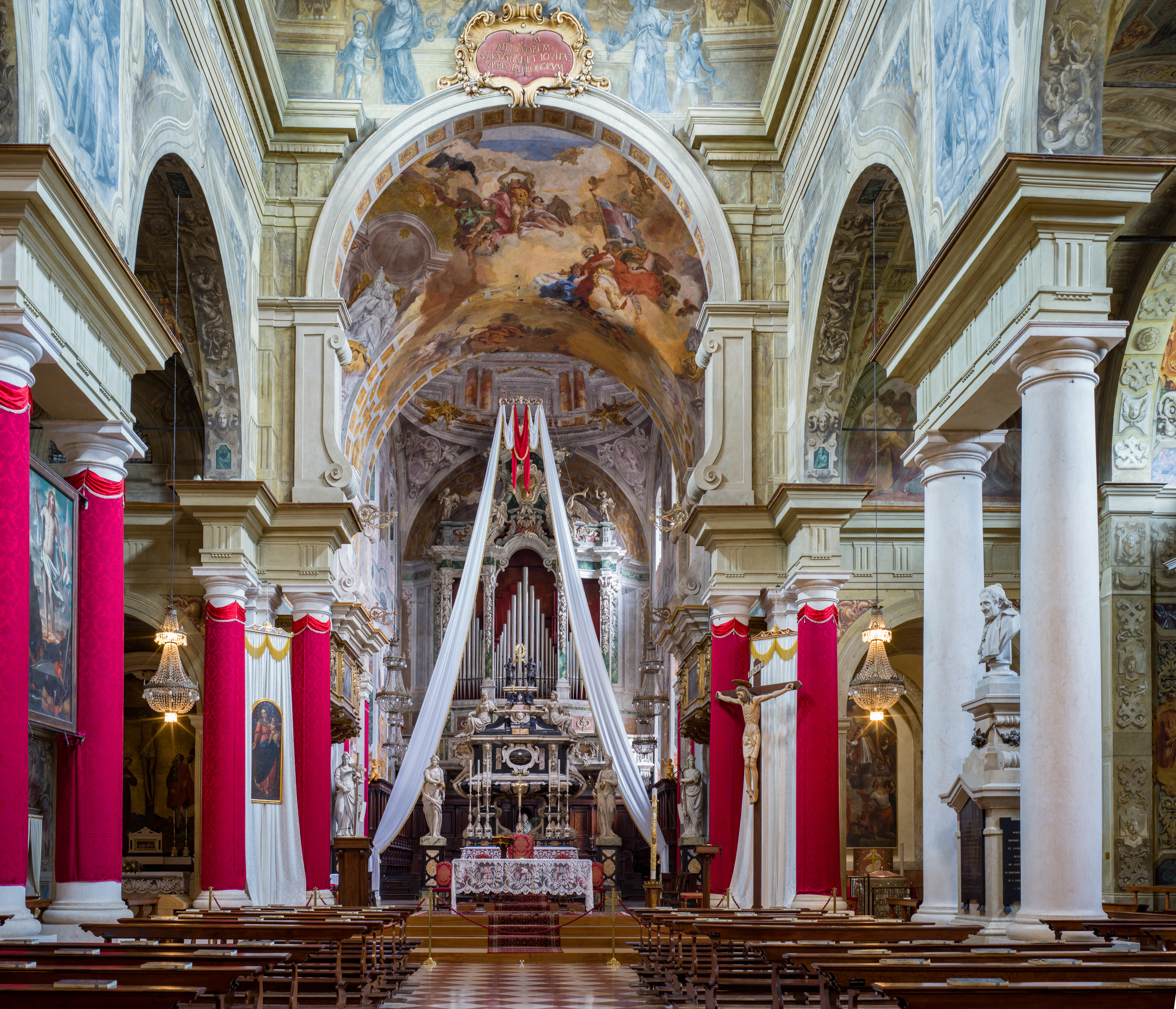 The main altar of the Santi Faustino e Giovita church in Brescia.